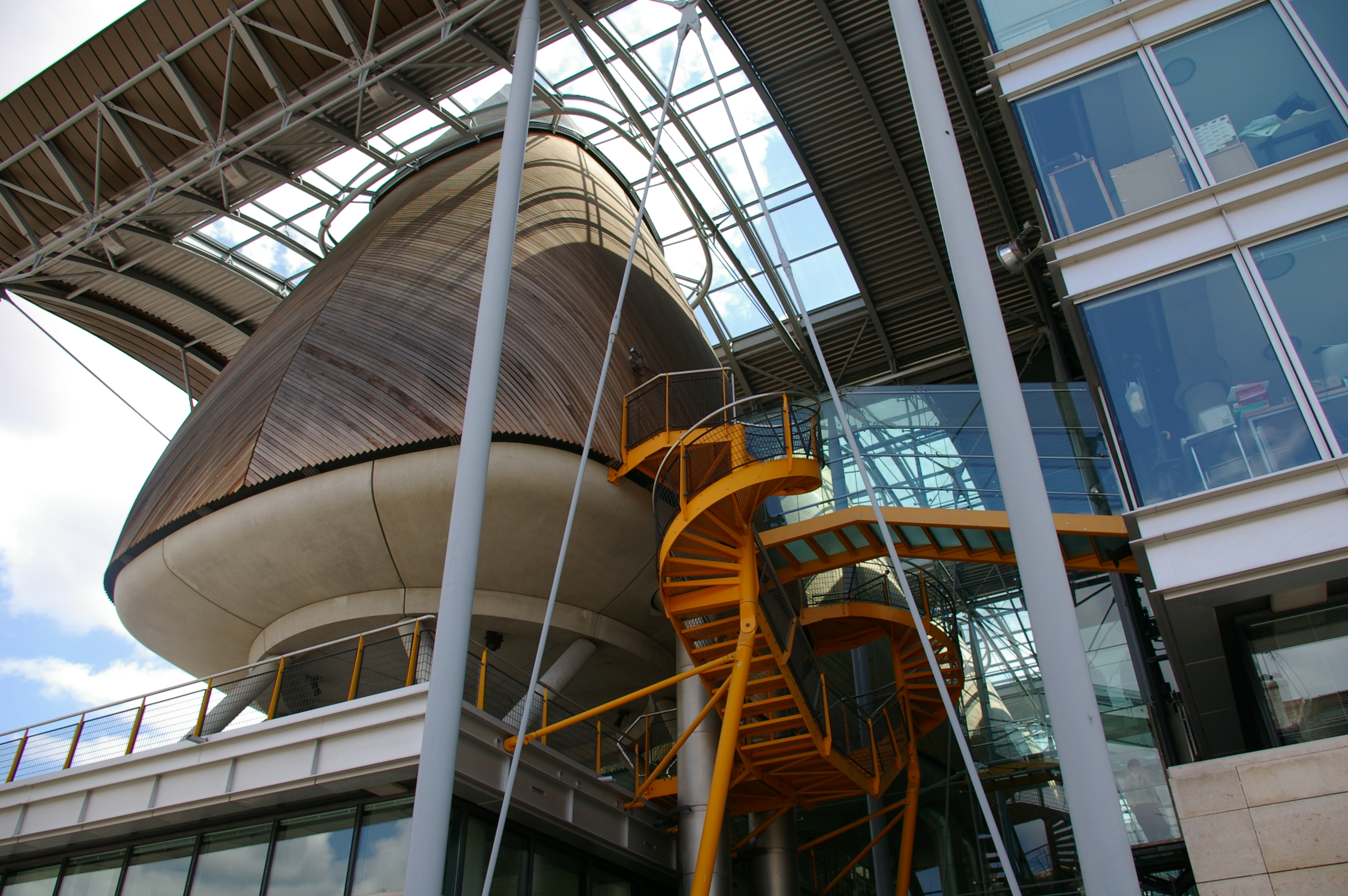 Bordeaux Law Courts, France. Designed by The Richard Rogers Partnership: The achitectural structure shown in this picture is actually a courtroom: "The seven courtroom 'pods', are clad in cedar wood, raised on pilotis within a great glass wall under an undulating copper roof. The 'flask'-like volumes of the courtrooms allow daylight deep into the internal spaces and, through their height, ensure temperature control through stratification."